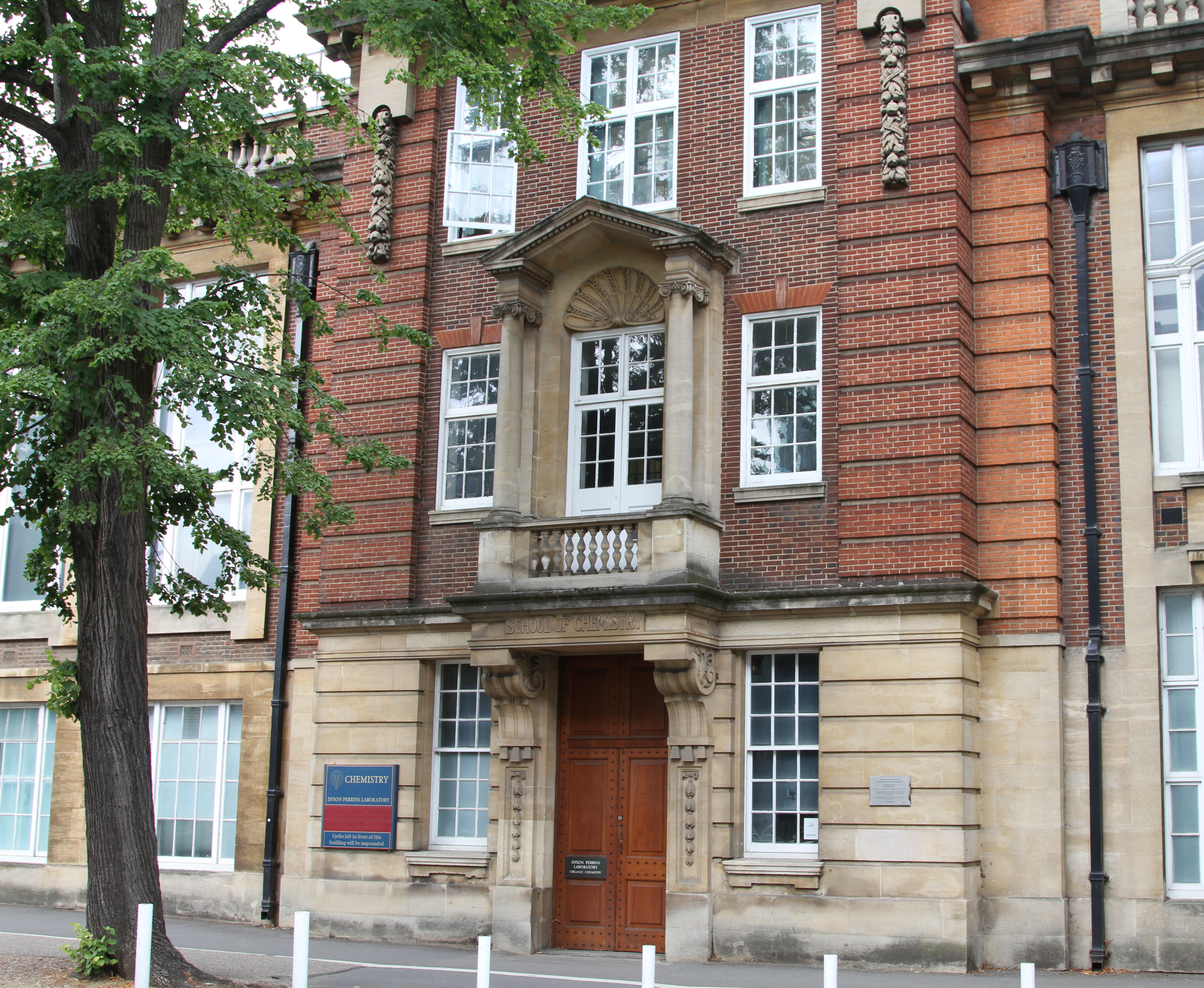 The entrance to the Dyson Perrins Laboratory of the University of Oxford's Department of Chemistry. A Royal Society of Chemistry plaque is visible on the wall to the right of the door.